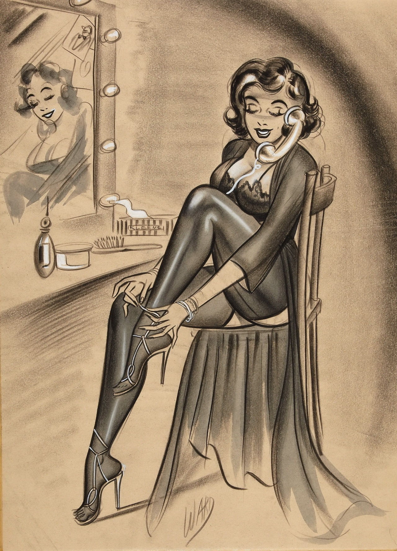 Illustration for Humorama by Bill Ward, 1952.